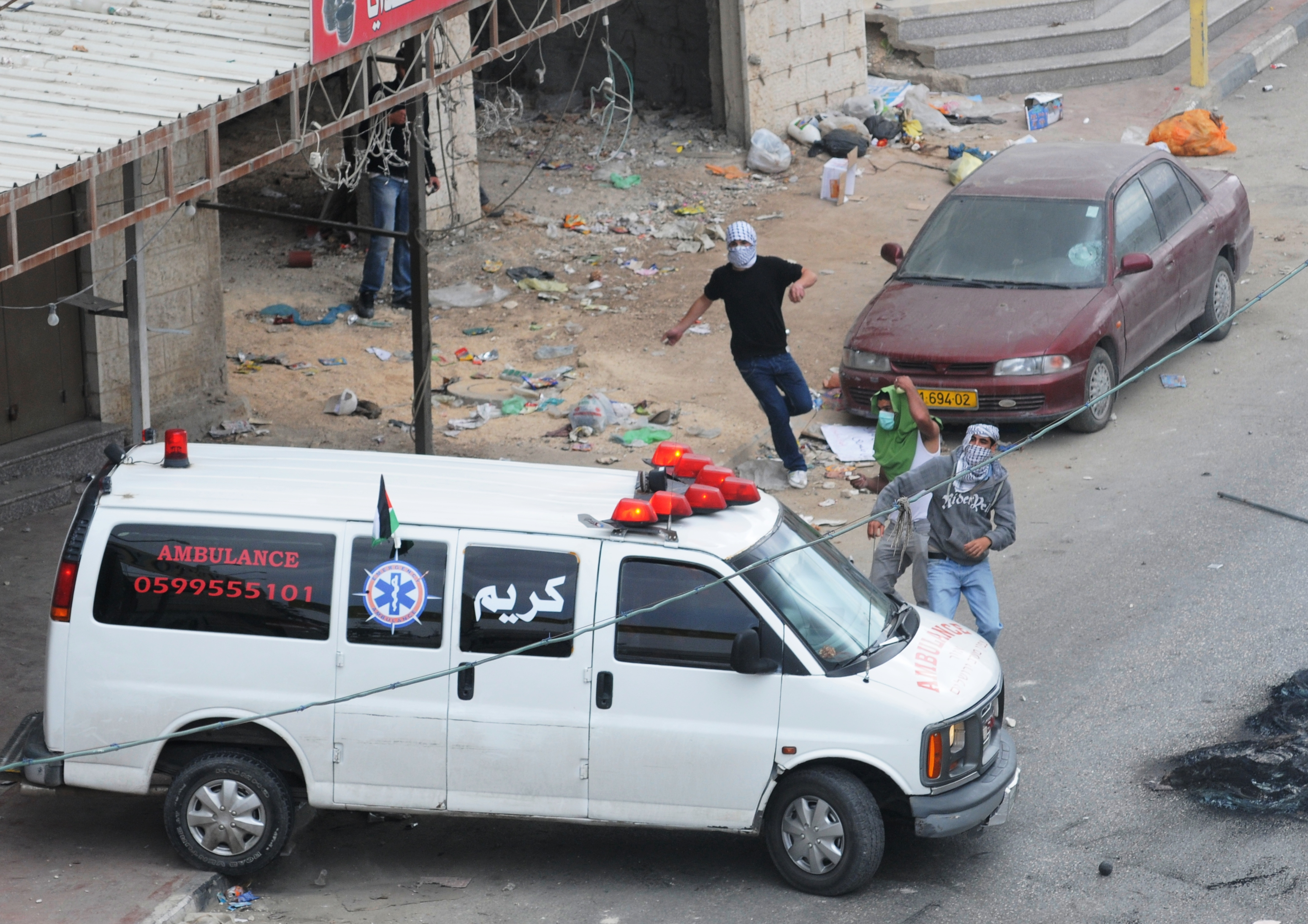 May 15, 2011: Palestinian rioters in Qalandiya use an ambulance for cover as they hurl rocks during a violent riot as part of the "Nakba" protests. For more information